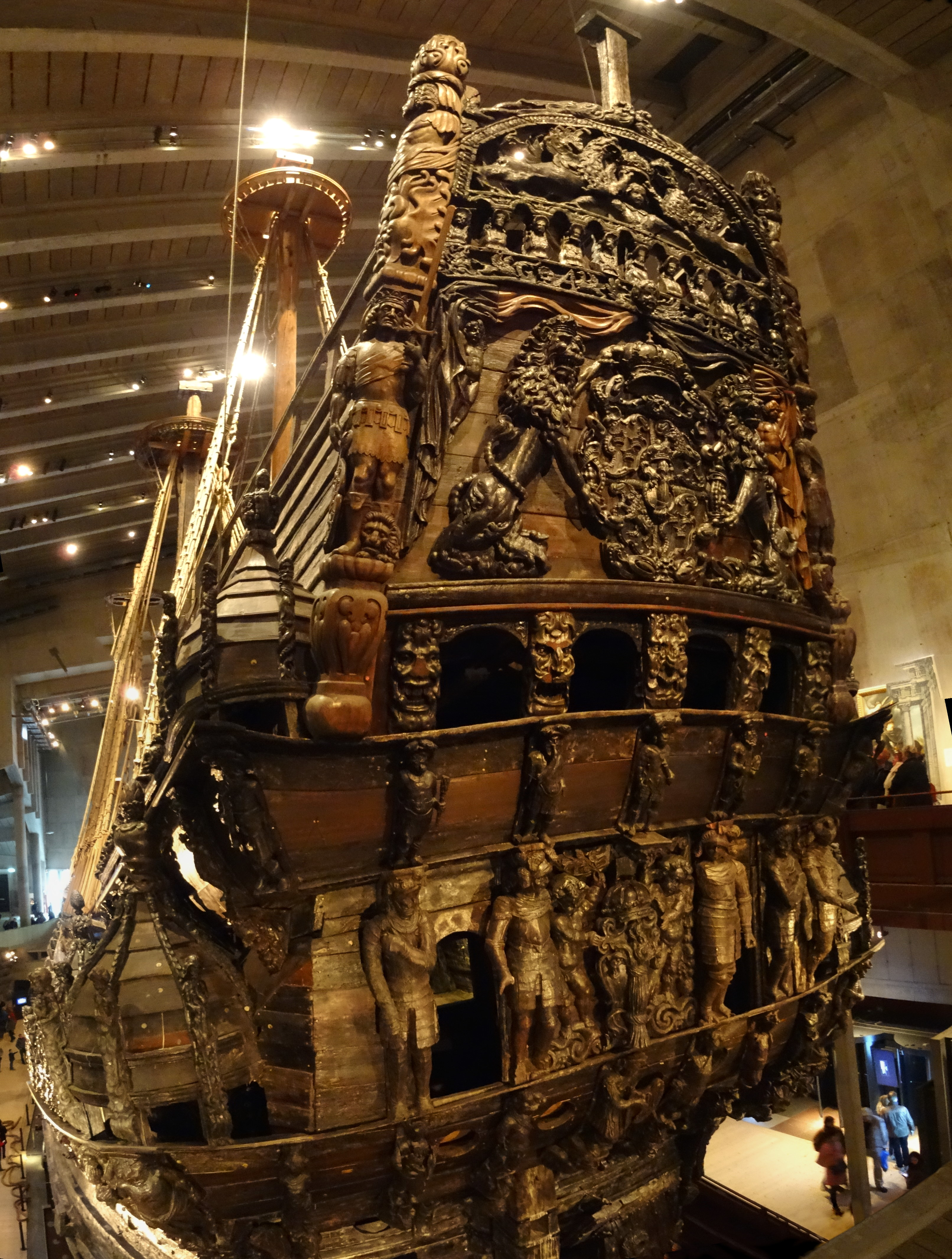 Heck of wasa.